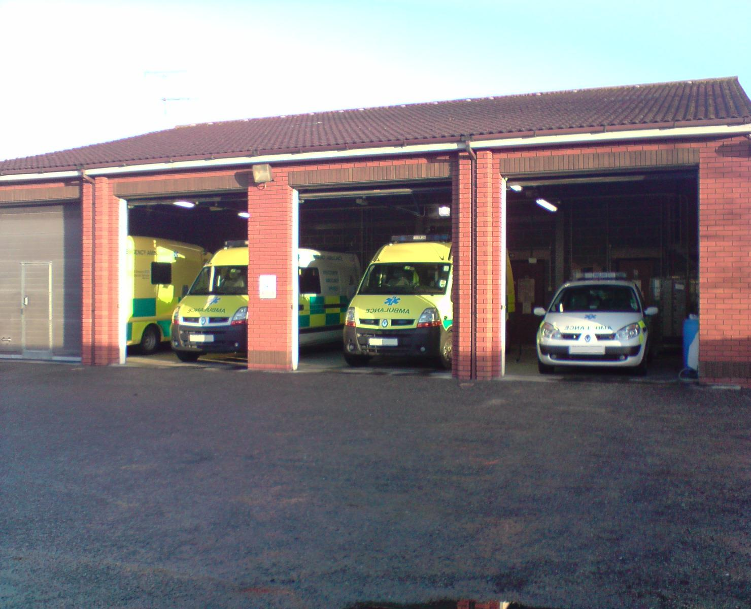 A picture of a typical ambulance station. Burnham Ambulance Station, Love Lane, Burnham-on-Sea, Somerset, England.